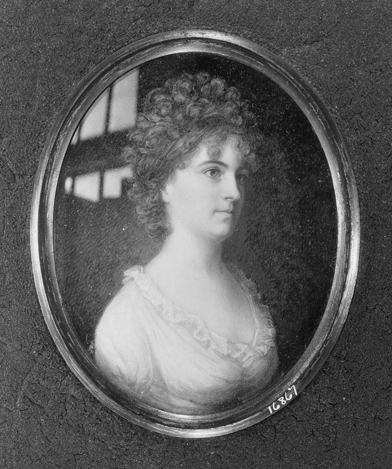 Title:Mrs. John Rutledge, Jr. (Sarah Motte Smith). Author/Artist:Malbone, Edward Greene, 1777-1807 Creation Date:ca. 1801 Description:Graphic reproduction(s) with documentation of a miniature. 3 5/16 x 2 5/16 in. on ivory. Provenance:Miss Kate Rutledge, Greenville, South Carolina.